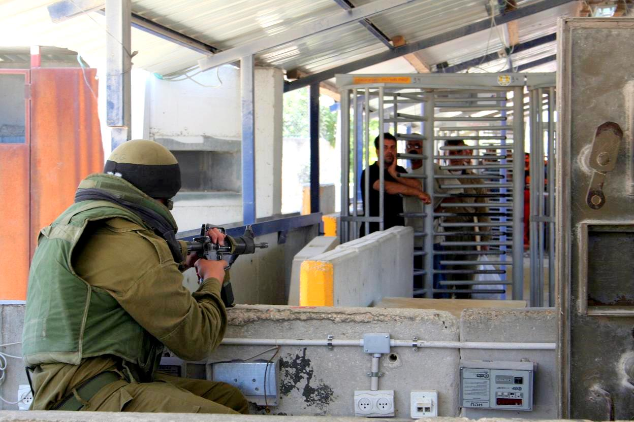 Inside Hawara checkpoint, in the occupied West Bank, Palestine.